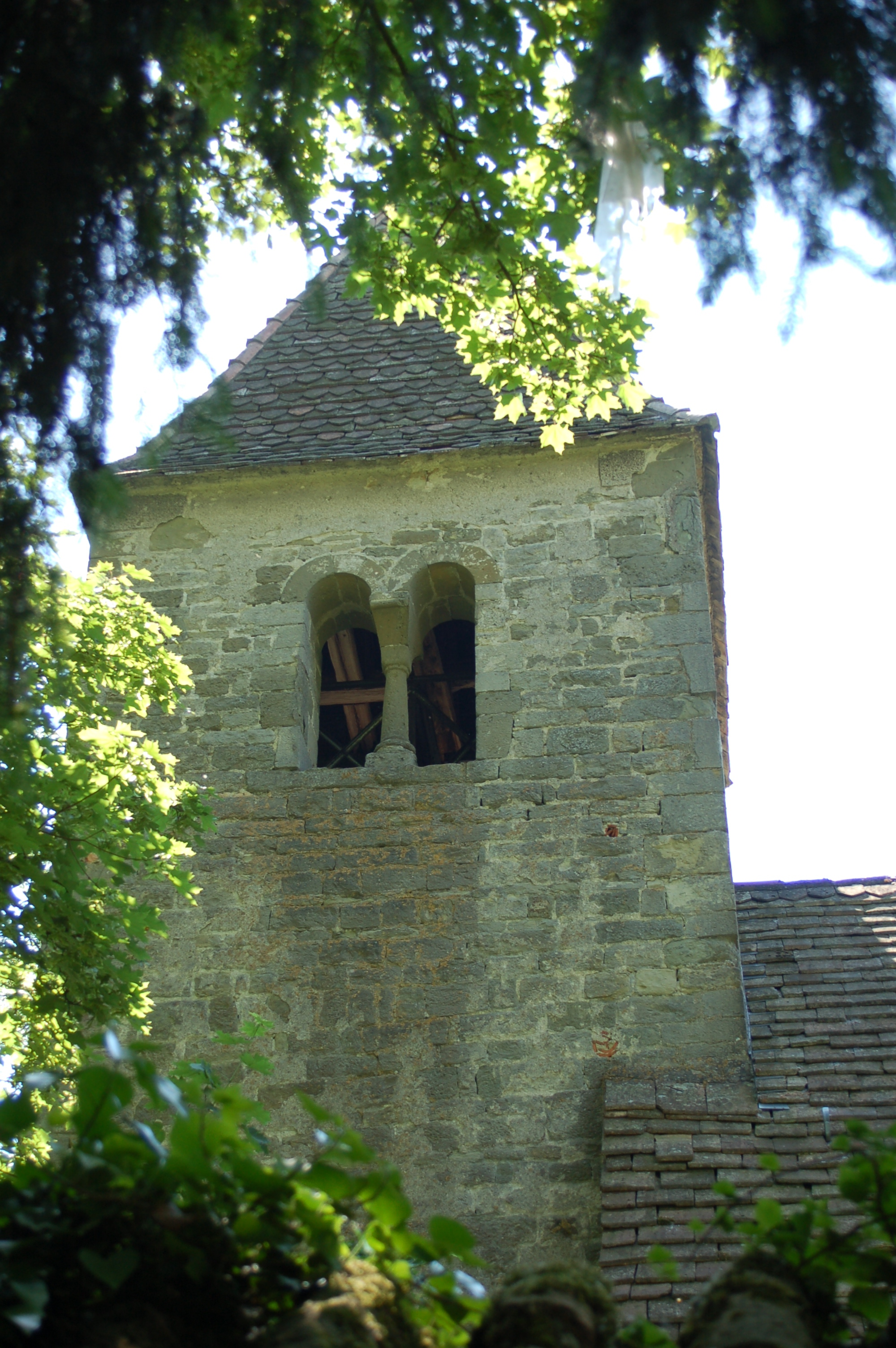 St. Andreas church in Pruefening / Regensburg, Germany